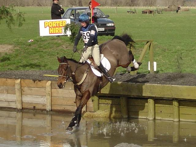 Training level water jump, Canterbury Park - New Zealand.